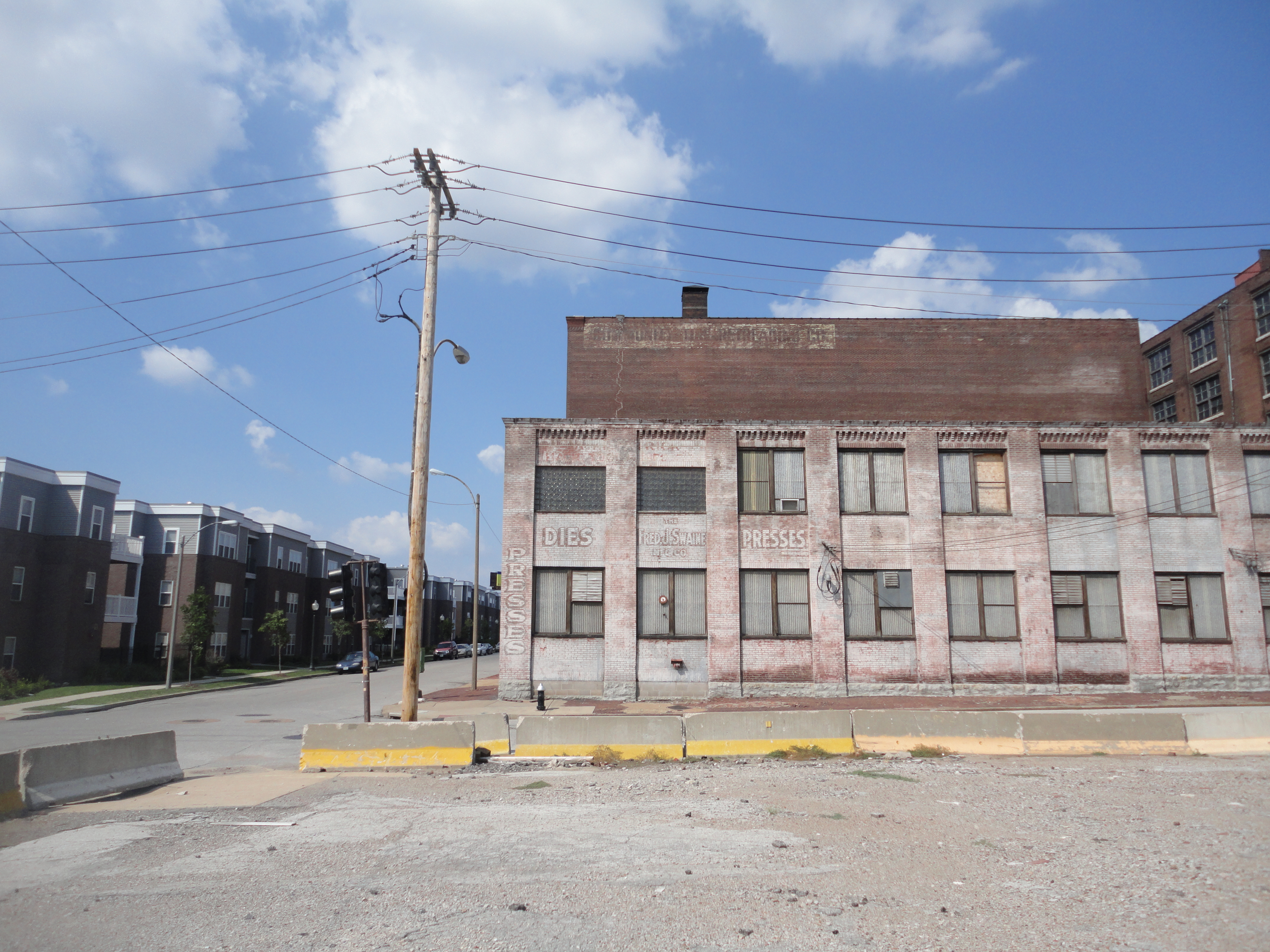 Dies and Presses in the Bottle District